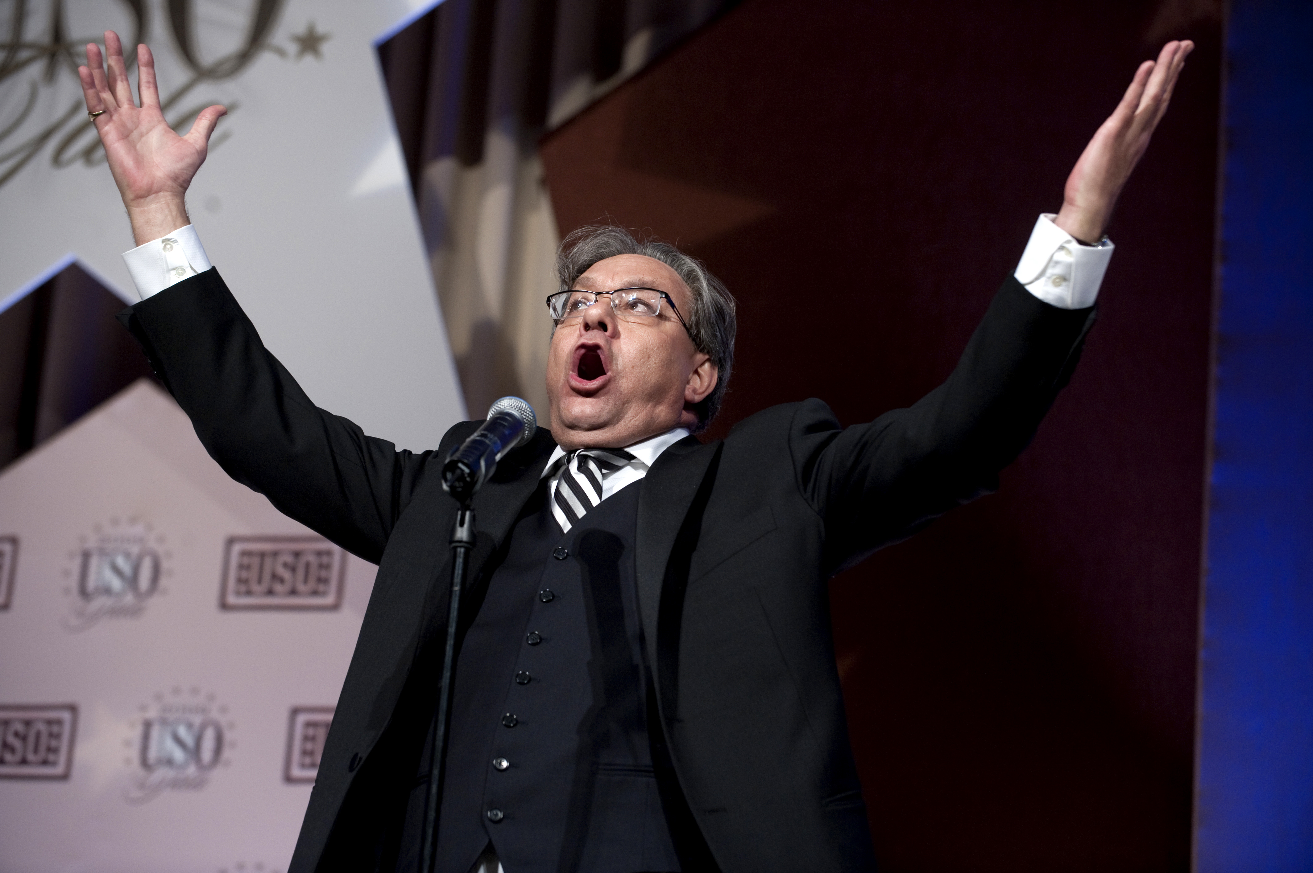 Comedian Lewis Black performs as part of his duties as emcee of the 2009 USO Gala, Washington, D.C., Oct. 7, 2009. DoD photo by U.S. Navy Petty Officer 1st Class Chad J. McNeeley